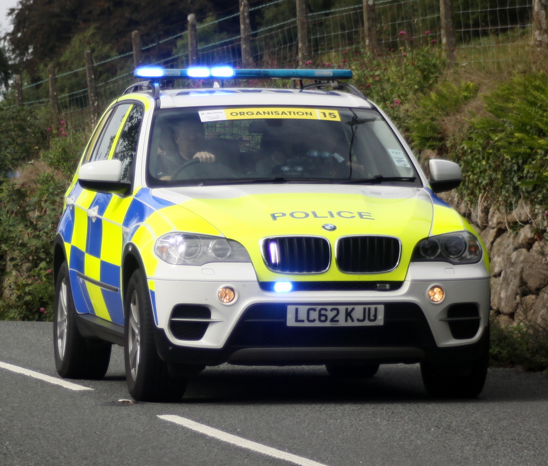 BMW X5 escorts riders on the Tour of Britain. Appears to be a BMW demonstrator vehicle, with 'BMW' clearly visible on roof, and no force crest marked